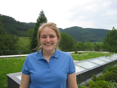 Melanie Wood, American mathematician, at Oberwolfach.